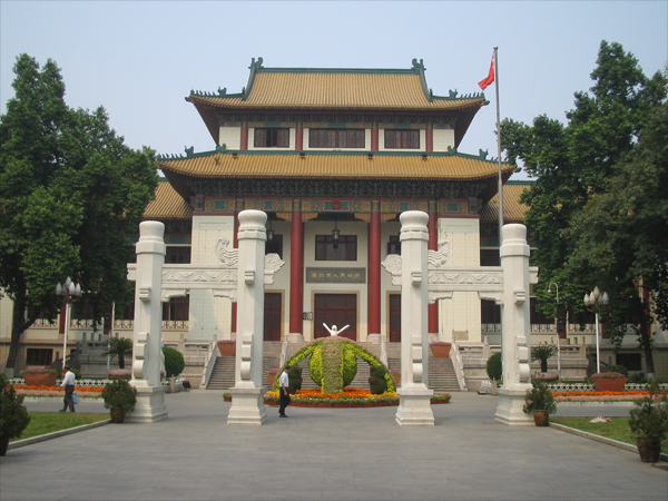 Canton City Hall 粵語: 廣州市府合署